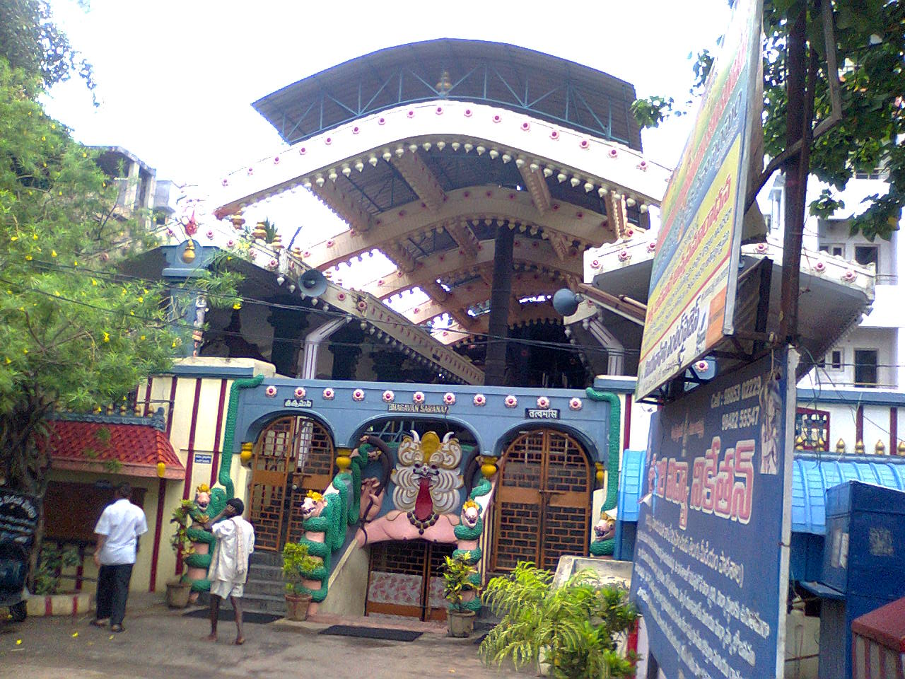 Ayappa Swamy Temple Sheelanagar